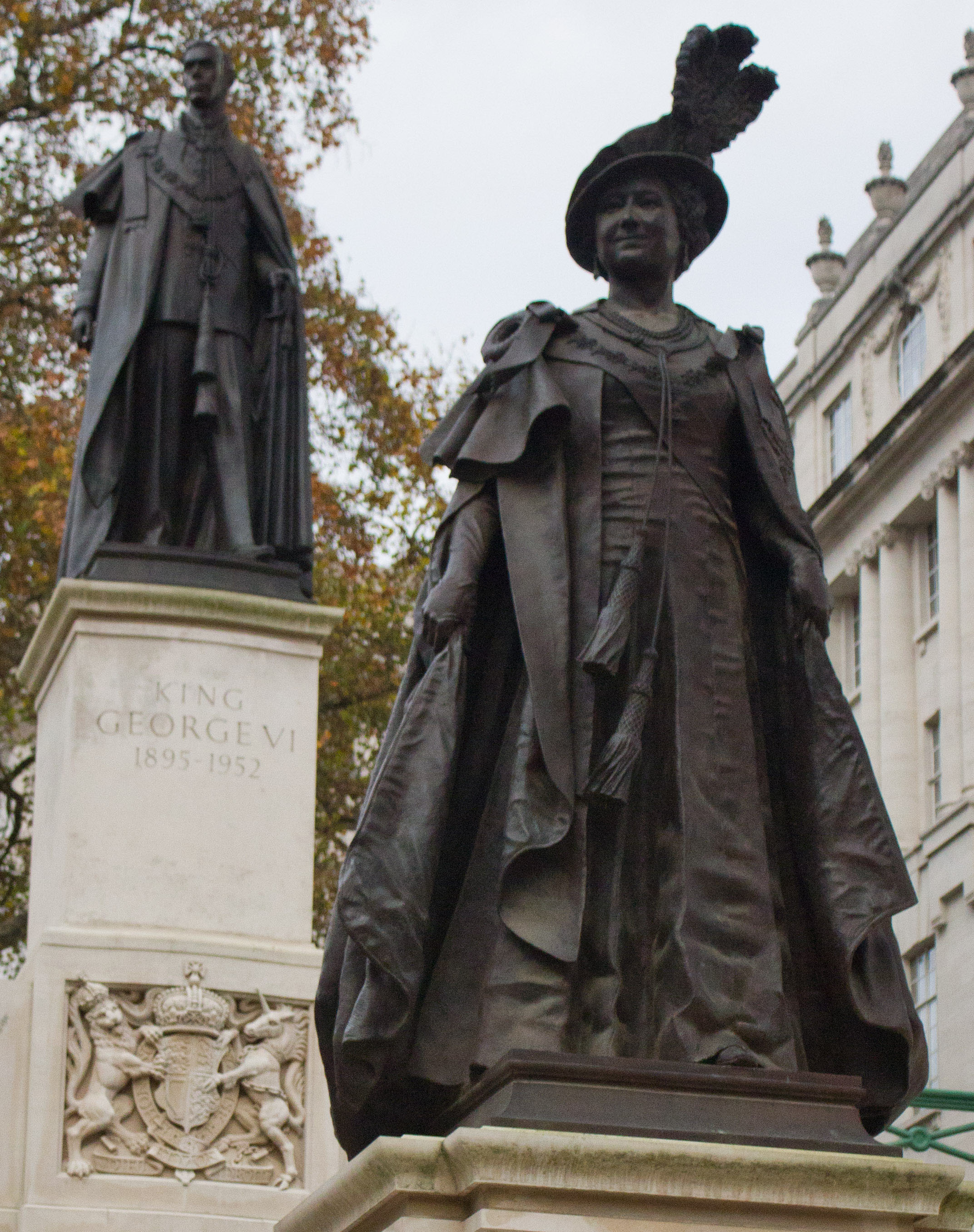 Crop of File:London England Victor Grigas 2011-31.jpg: Statue of King George VI and Queen Elizabeth at Carlton Gardens, London